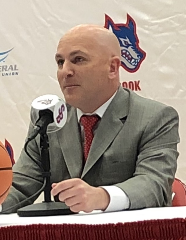 Geno Ford during his introductory press conference